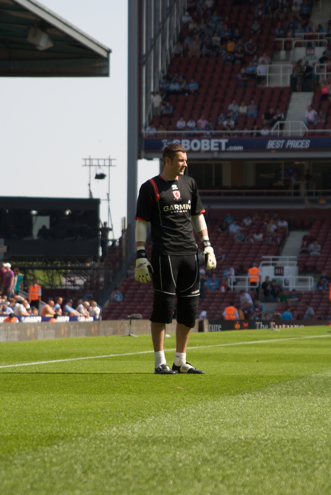 Ross Turnbull